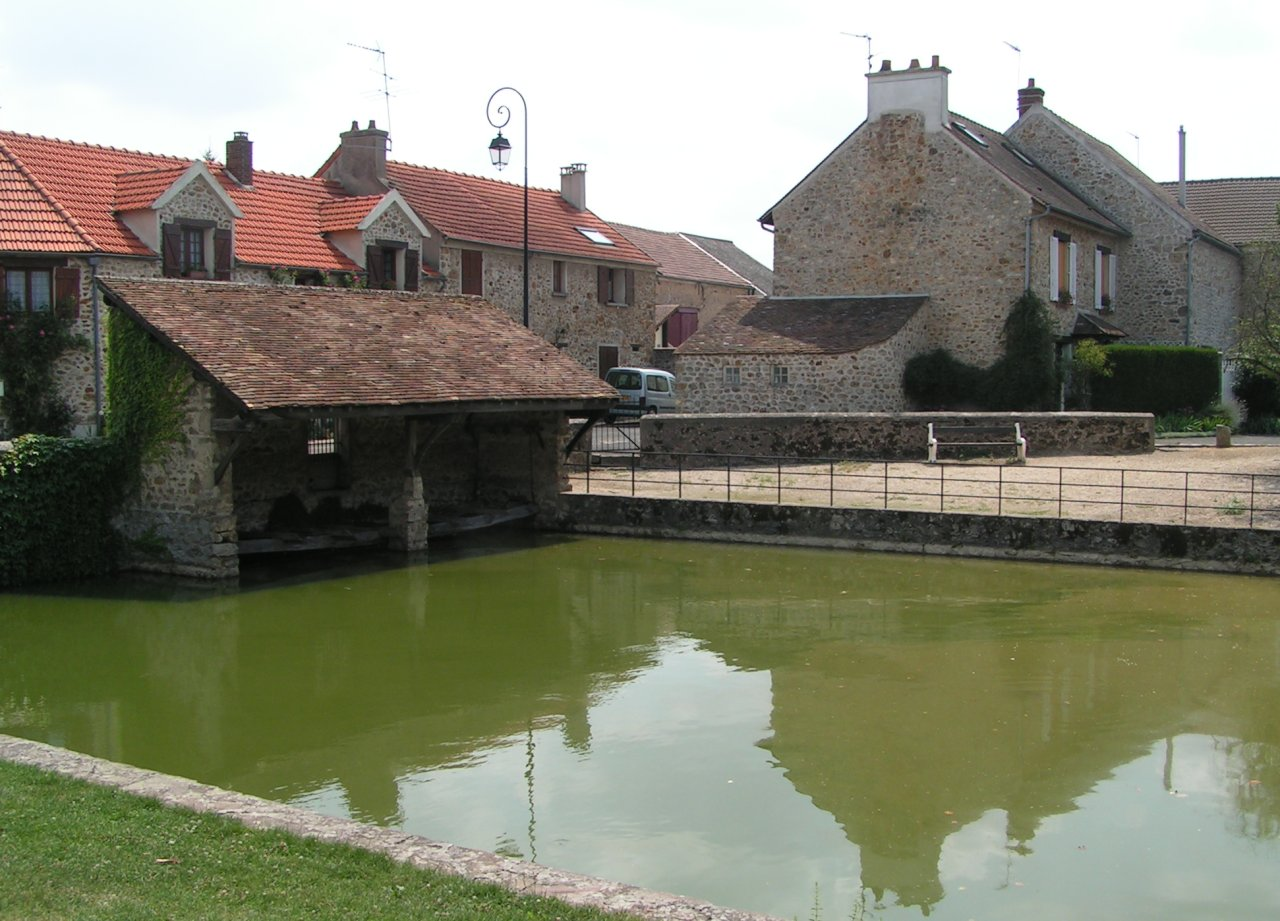 Washing-Place in Villeziers, commune of Saint-Jean-de-Beauregard, Essonne, France